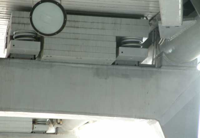 London Millennium Bridge - Damper beneath deck, north side - 240404.jpg Photo taken by & Copyright Tagishsimon 24th April 2004